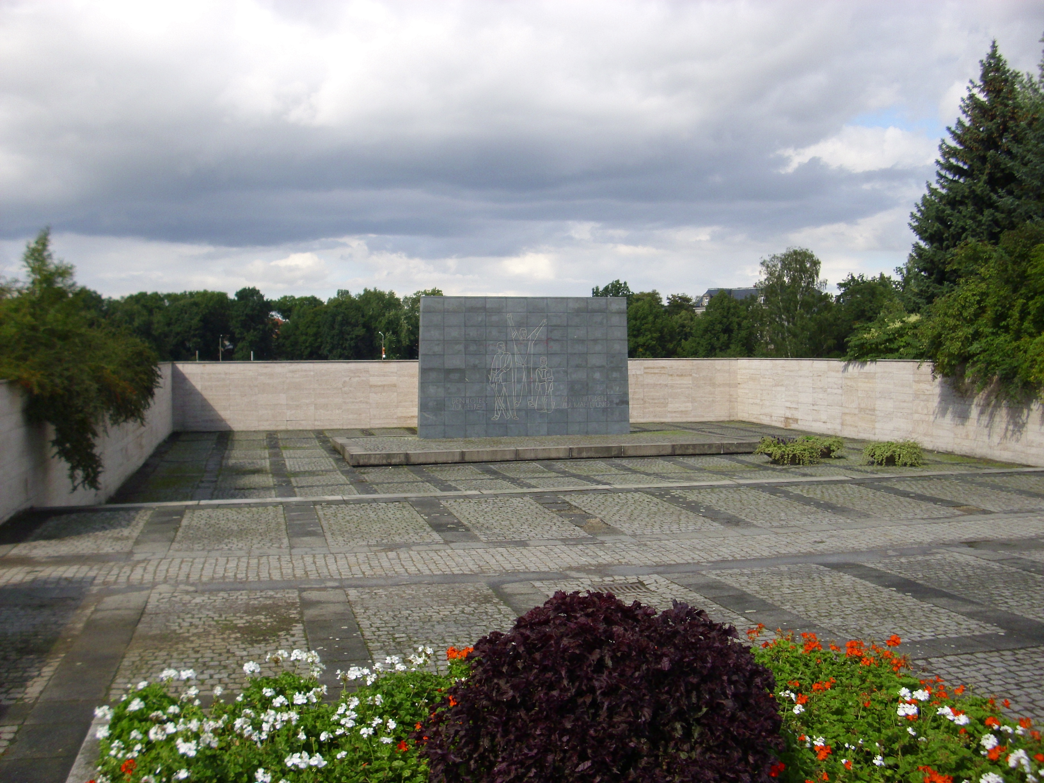 Memorial for the Victims of National Socialism at the swan pond in Zwickau